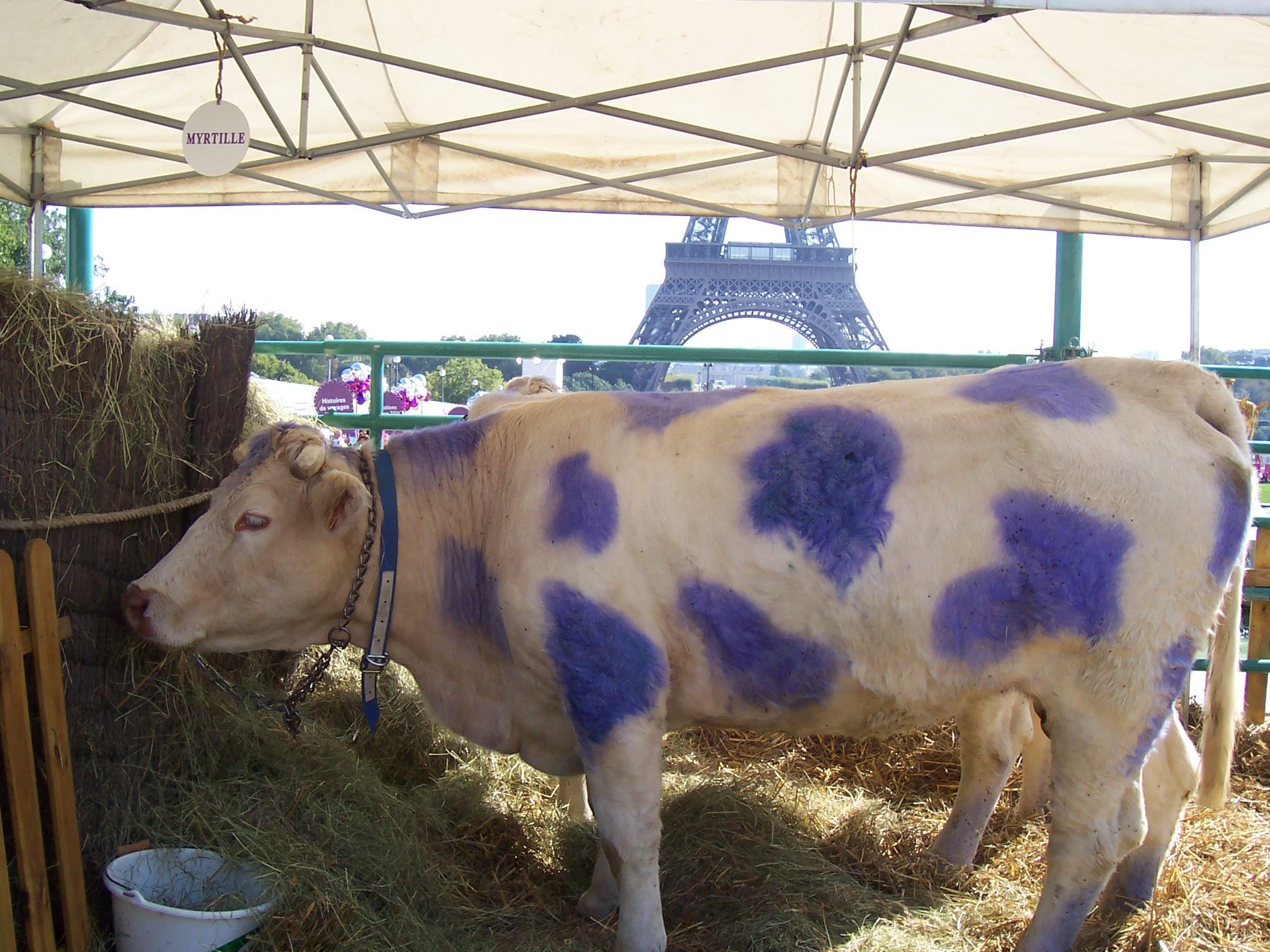 A cow spray-painted purple to promote Milka in front of the Eiffel Tower.